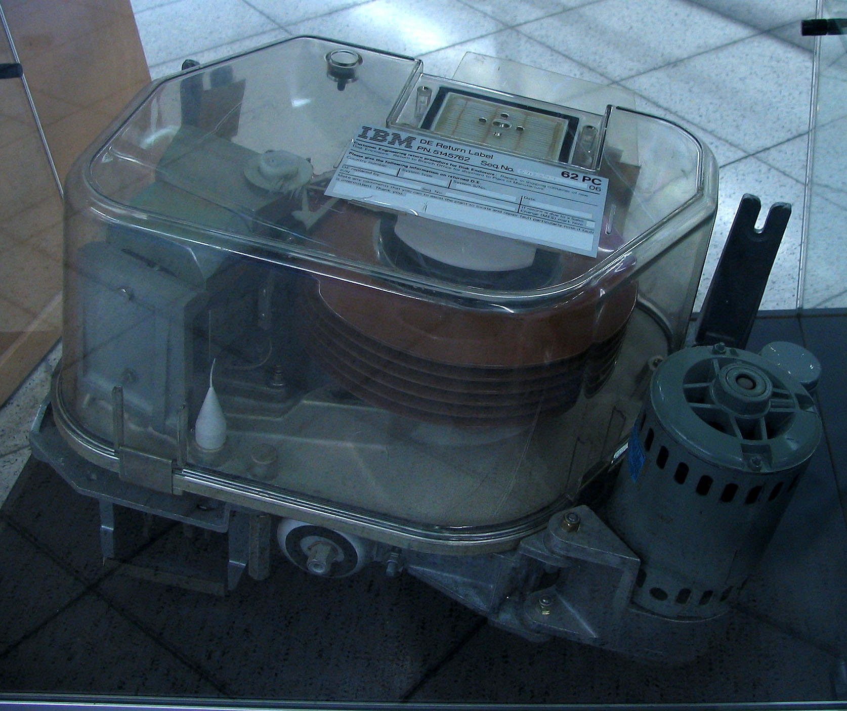 Old IBM Hard Disk Drive.